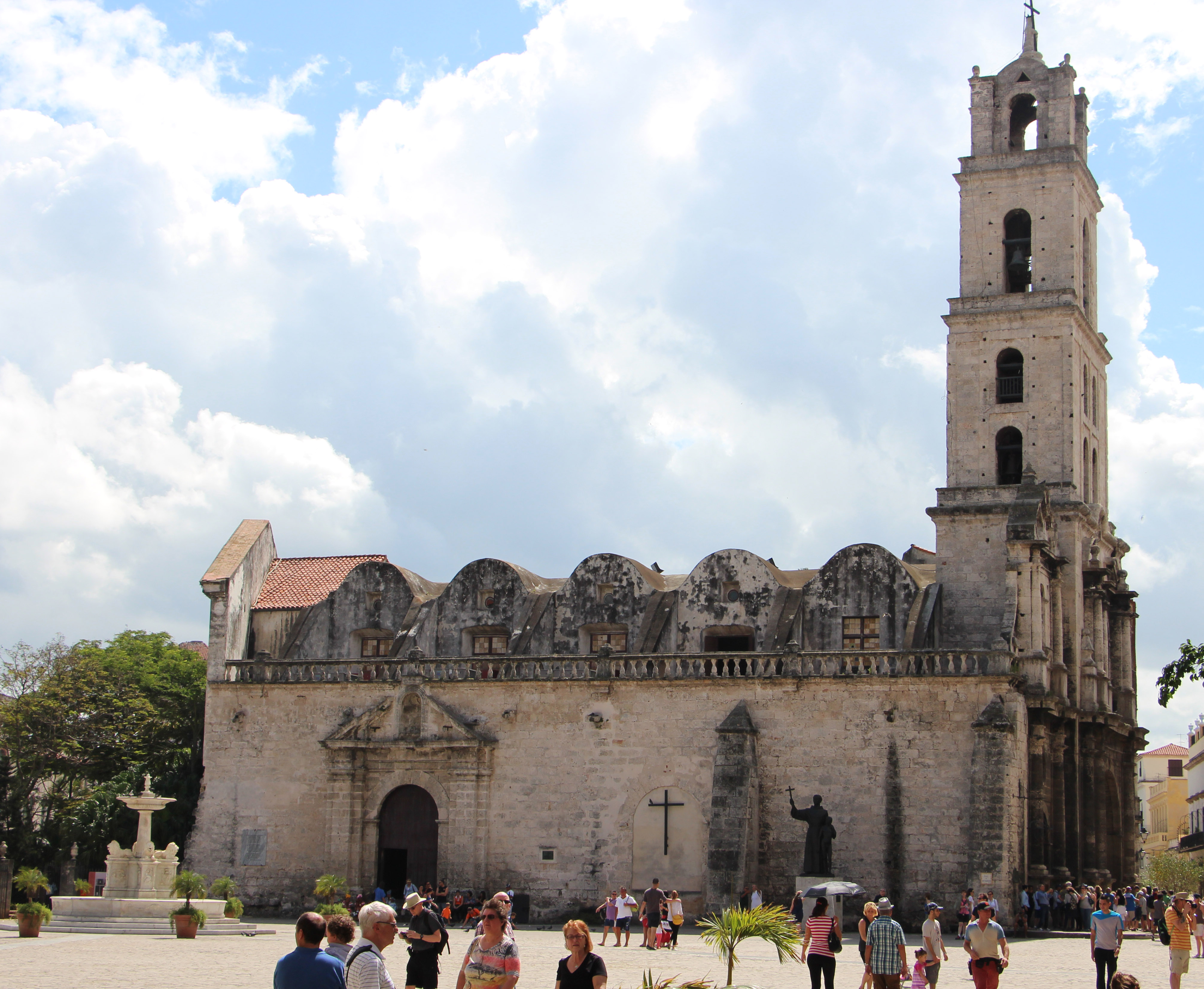 Basilica Menor de San Francisco de Asis, and its bell tower, in Havana, Cuba